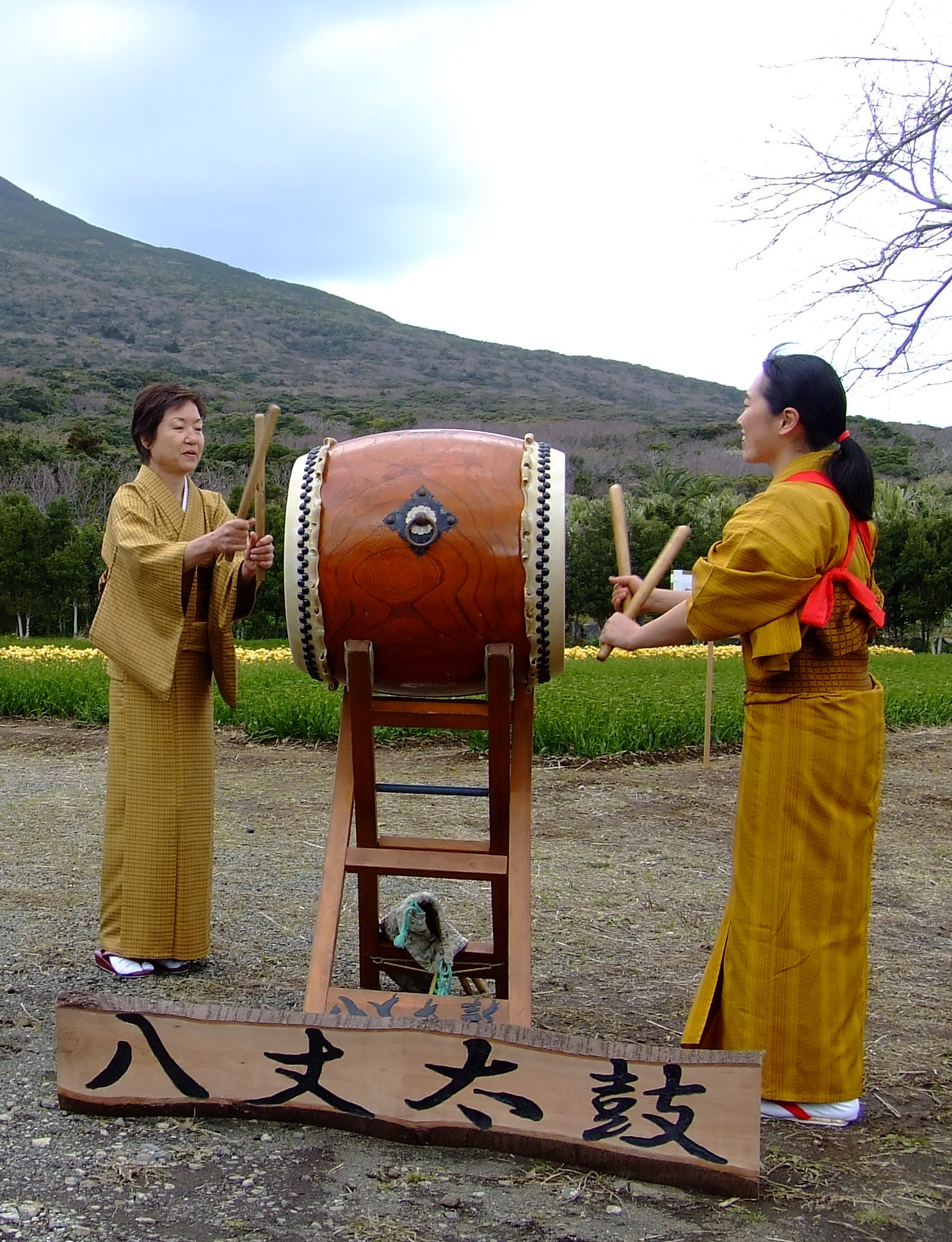 Two women wearing kimonos made from kihachijo fabric demonstrating traditional Hachijojima taiko drumming. Hachijo-jima in Japan. I took the photo with a digital camera on 21st March 2007.